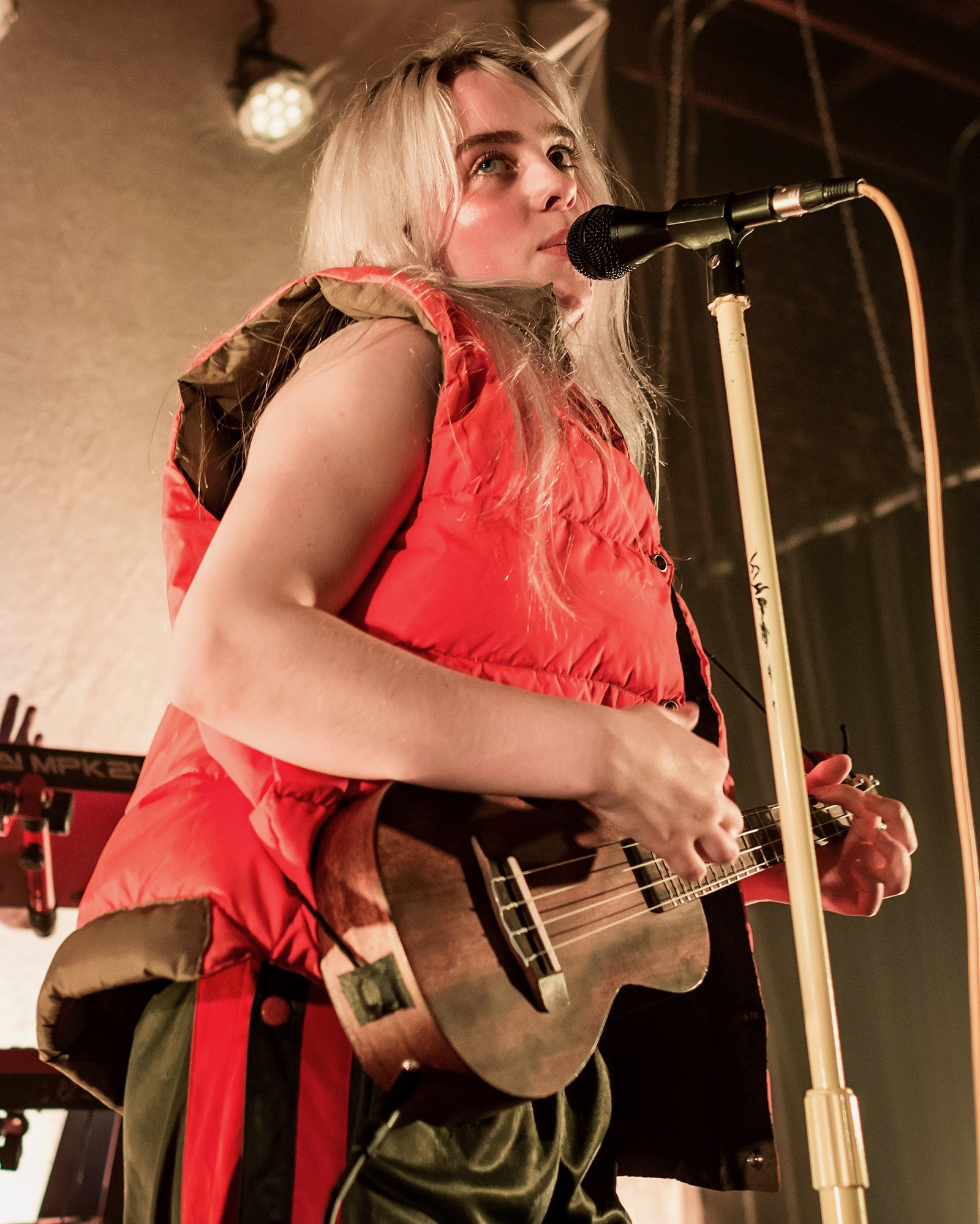 Billie Eilish performing live at The Hi Hat in Highland Park, Los Angeles, California, on Thursday, August 10, 2017.